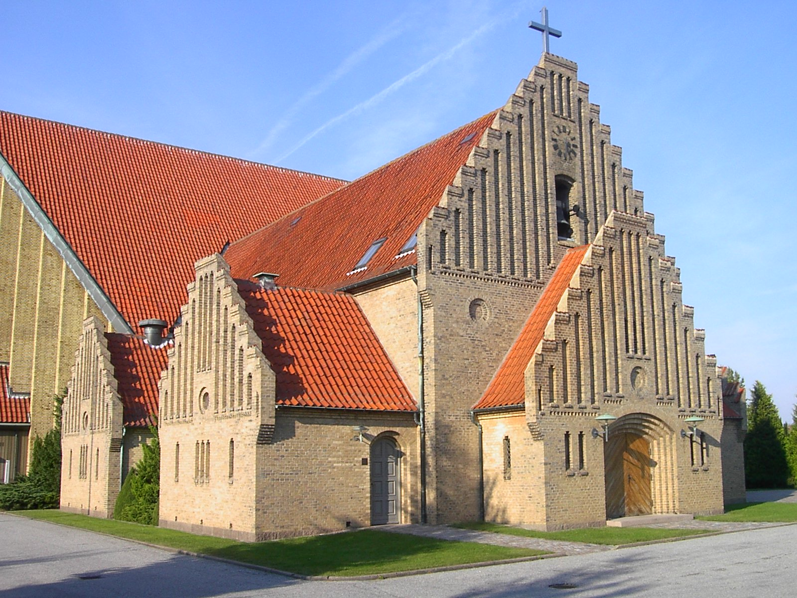 Christianskirken (Christians Church) in the city Fredericia in Denmark. Source: Photo by --Rune Magnussen 5. Sep 2005